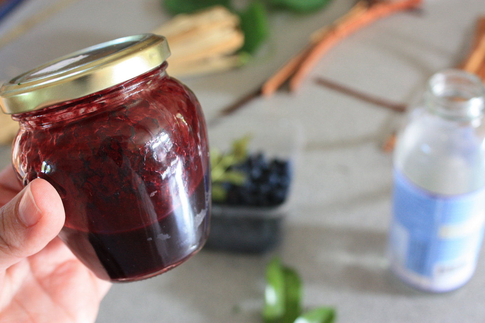 For more information on this class, please see the full report here